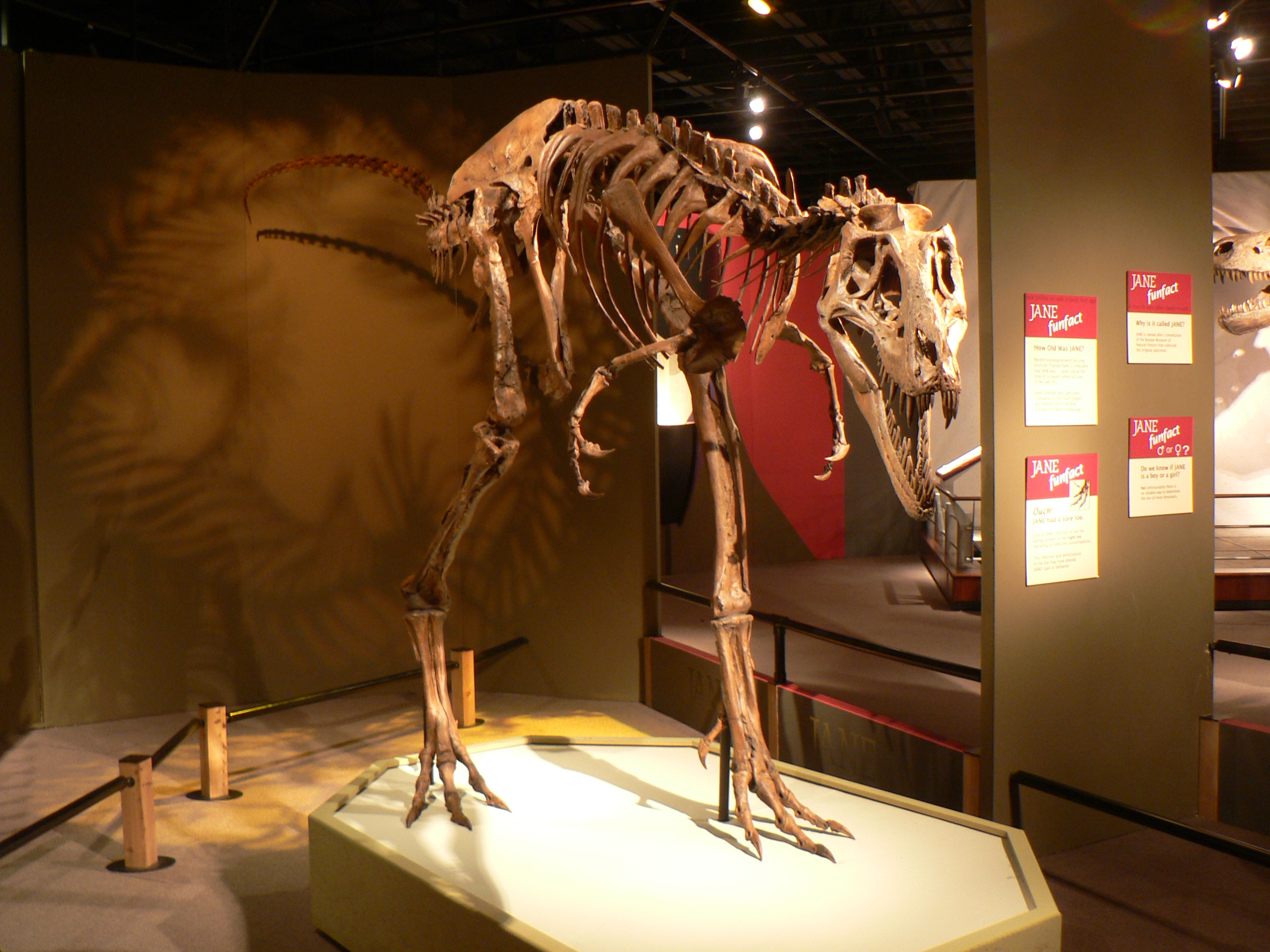 Actually, there's some dispute as to whether Jane, this specimen, is really a t-rex.